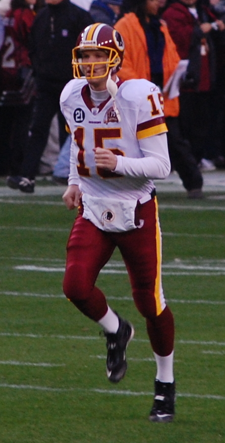 Picture of Todd Collins before Washington Redskins vs. Dallas Cowboys, 12/30/2007